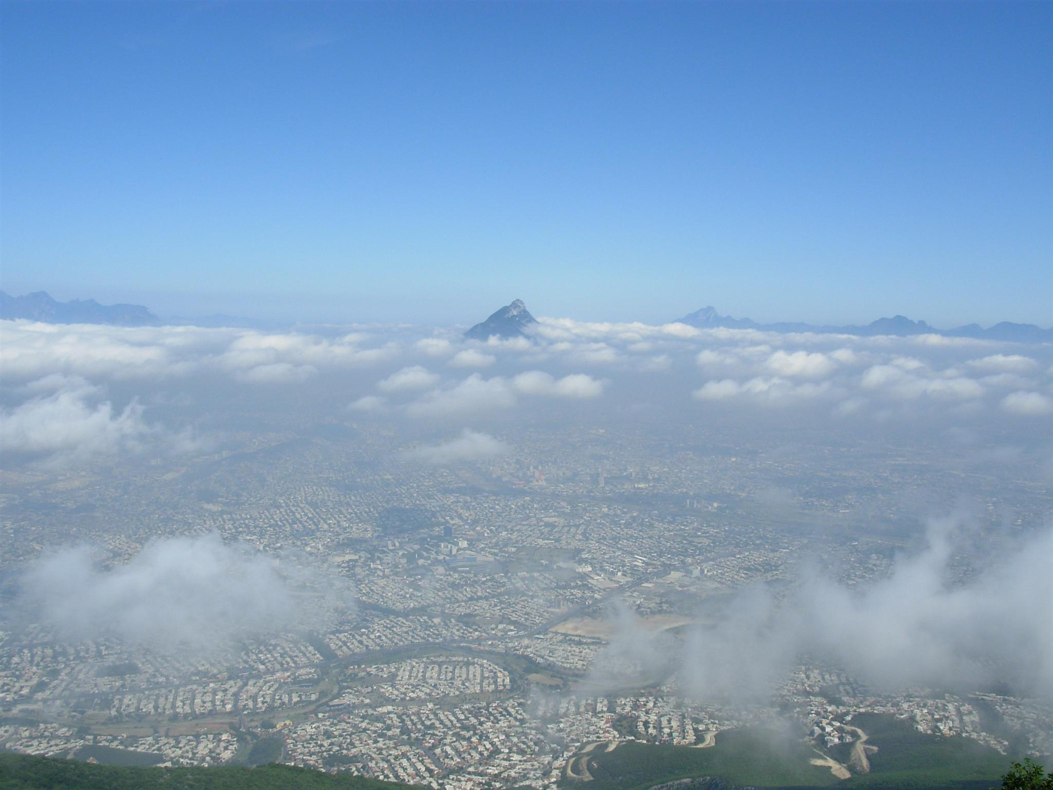 Monterrey from the top of "Cerro de la silla"